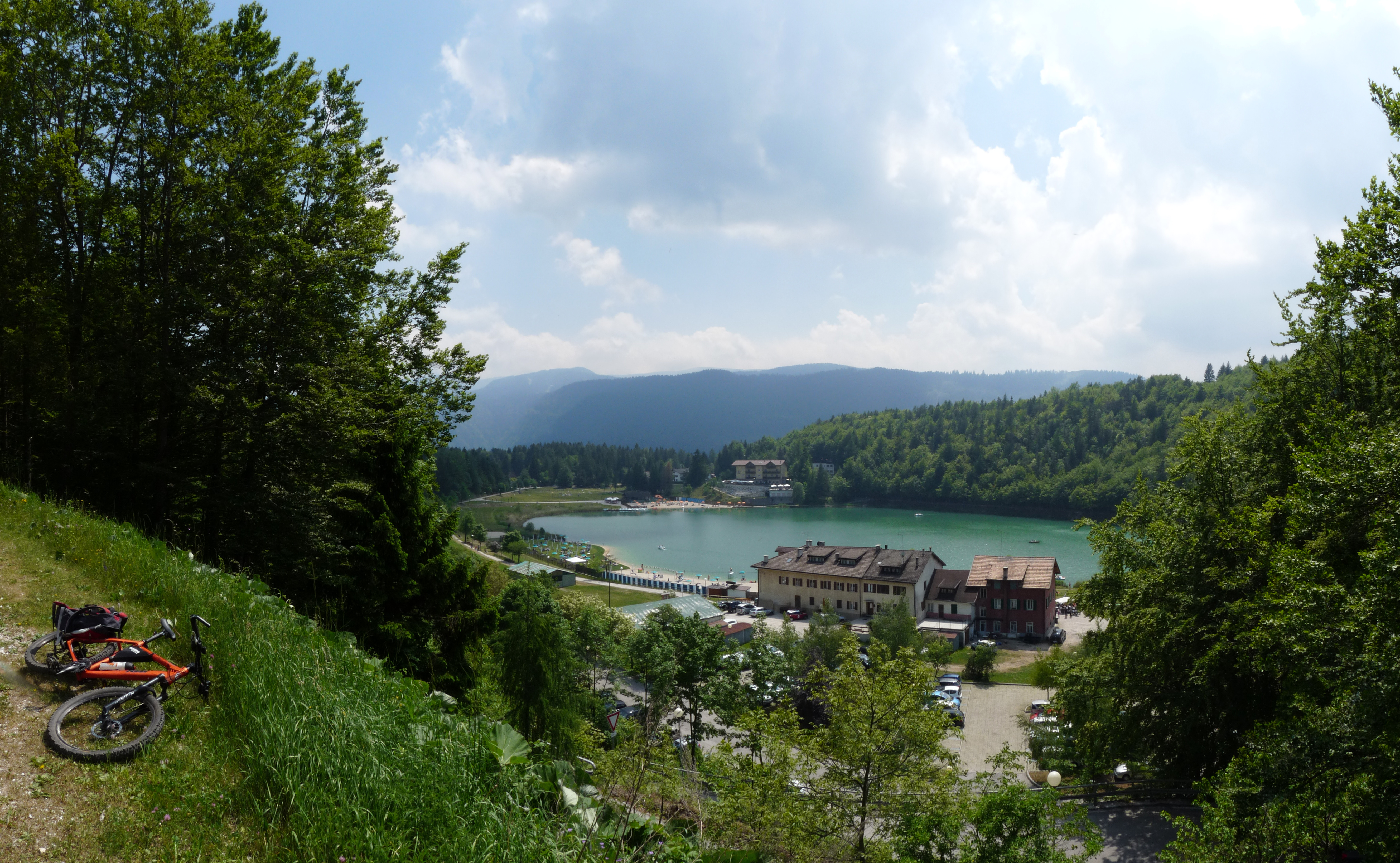 Lavarone (Italy): view of lake Lavarone